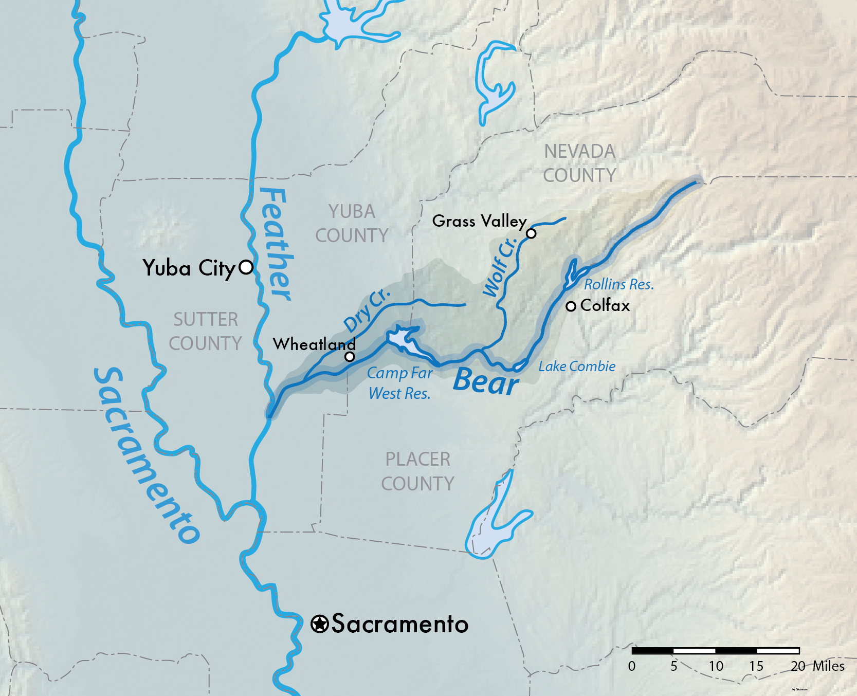 Map of the Bear River watershed in Northern California, USA. Shaded relief data from US Geological Survey.